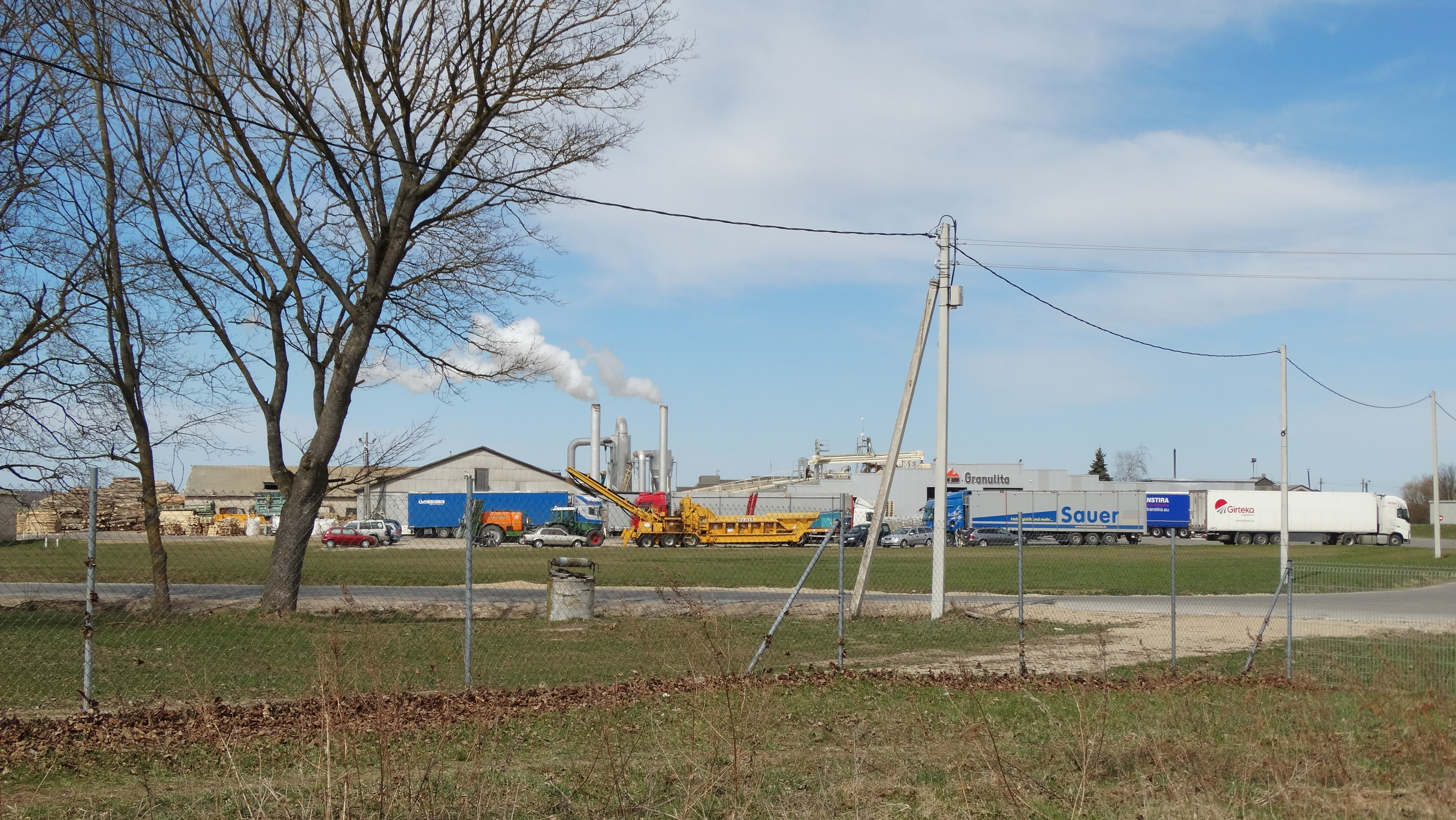 Vainiūnai, Radviliškis district, Lithuania